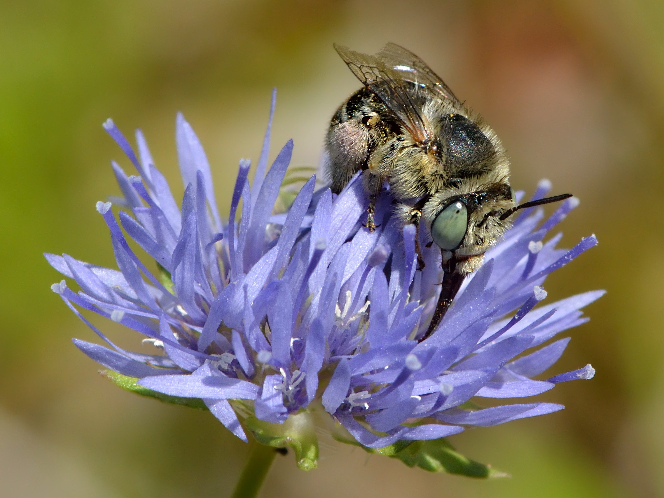 Little flower-bee (Anthophora bimaculata) (female) on the sheep's bit scabious (Jasione montana). Tallinn, Estonia.